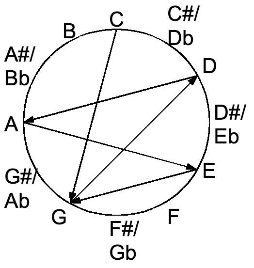 New standard tuning drawn in the chromatic circle.